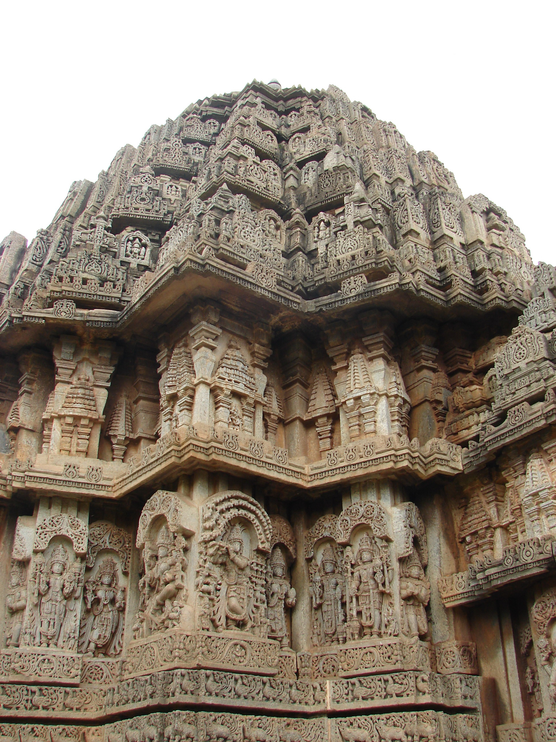 This photograph was taken by me at at Lakshminarayana temple in Hosaholalu, Mandya district, Karnataka state, India. The temple was built in 1250 A.D. during the reign of Hoysala Empire King Vira Someshwara. It is considered one of the ornate examples of Hoysala architecture. The shrine and the tower over it follow a stellate design style characteristic of the Hoysala architecture.